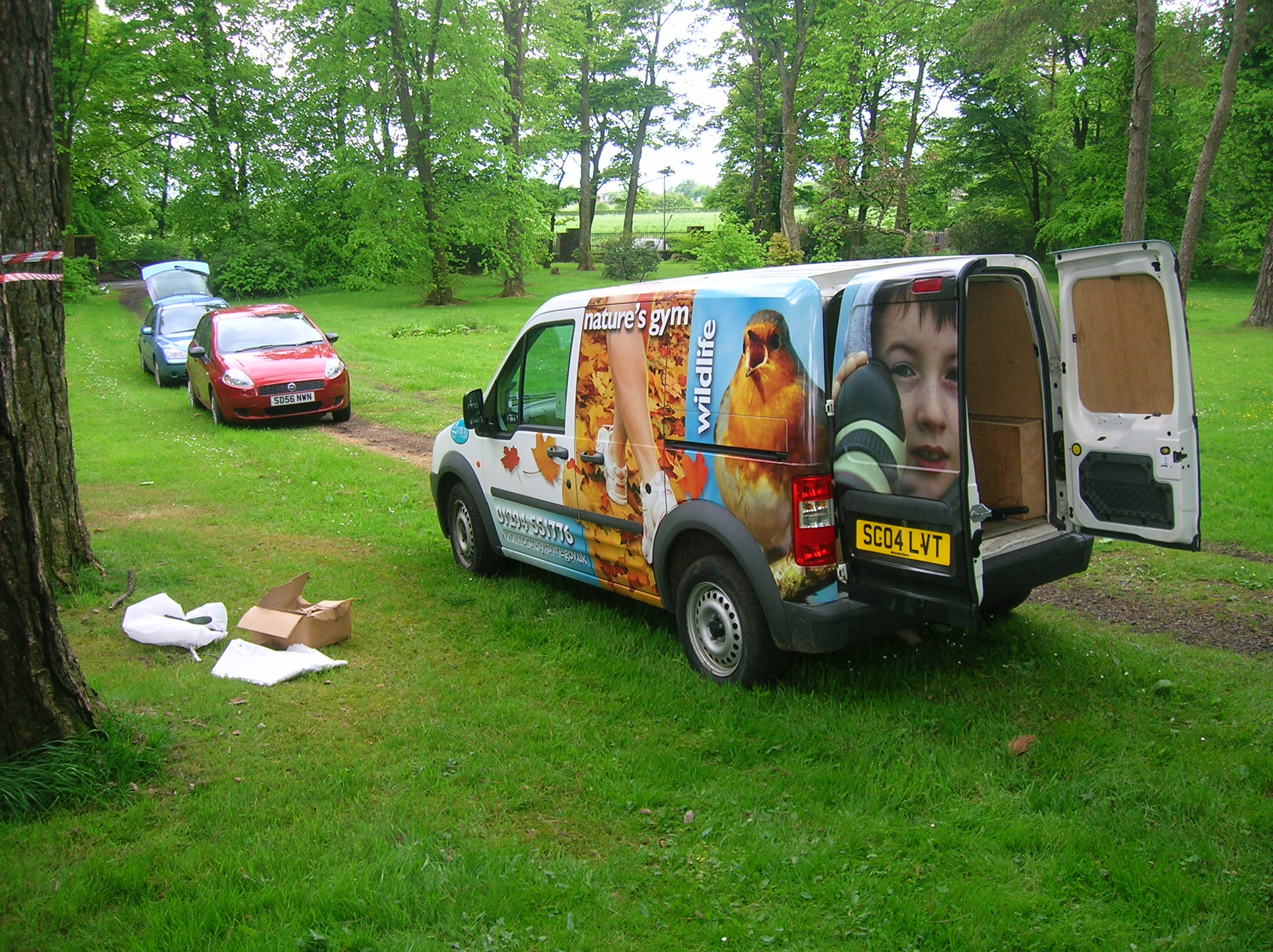 Eglinton Country Park van, Speir's School, beith